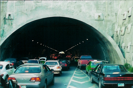 View of one of the tunnels entrances on its souther side (San Pedro Garza Garcia).